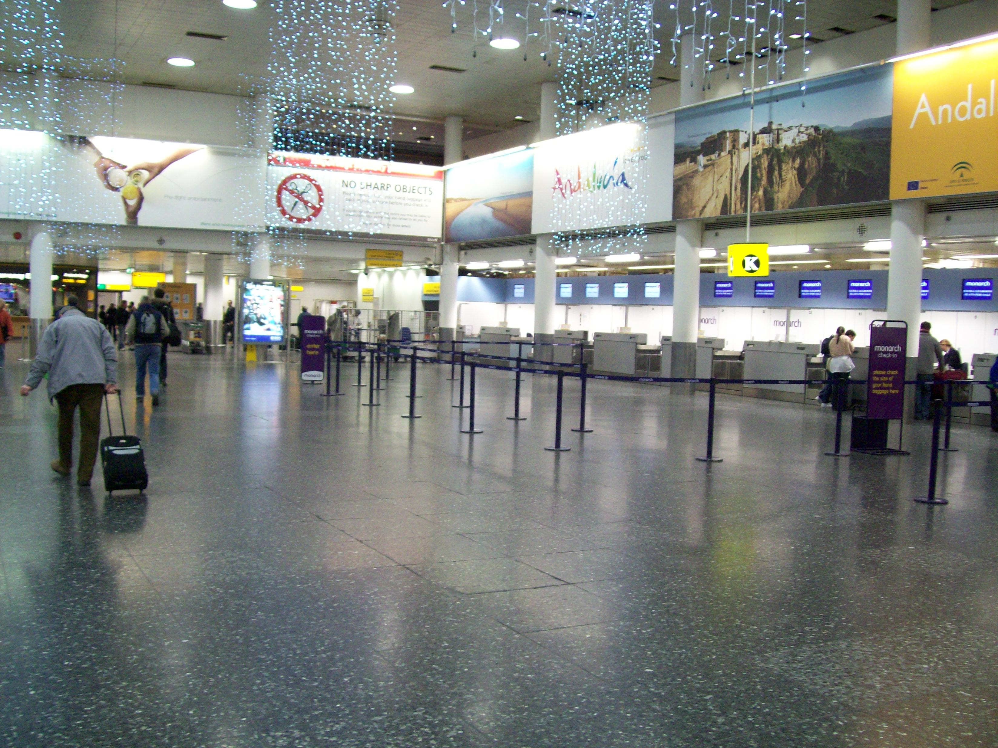 Gatwick South Terminal Zone K check-in concourse